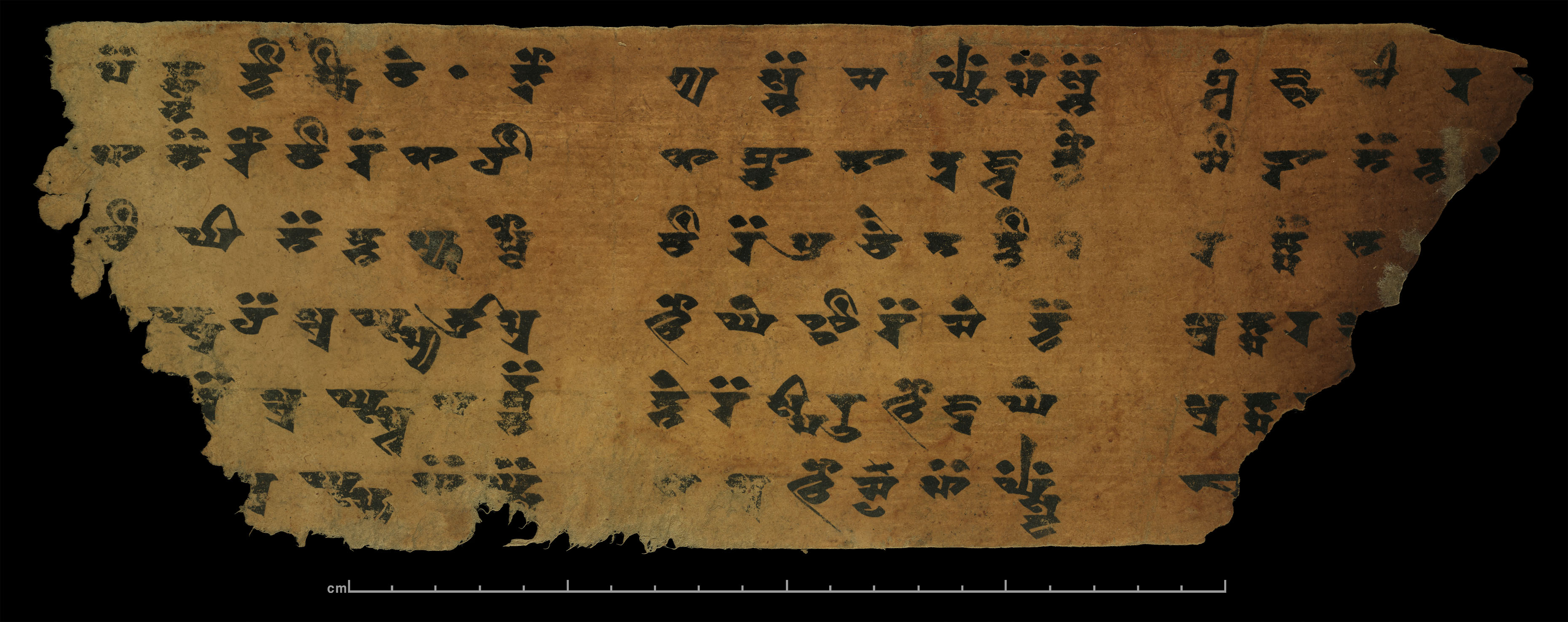 Folio from the Khotanese Buddhist text The Book of Zambasta. Ink on paper.